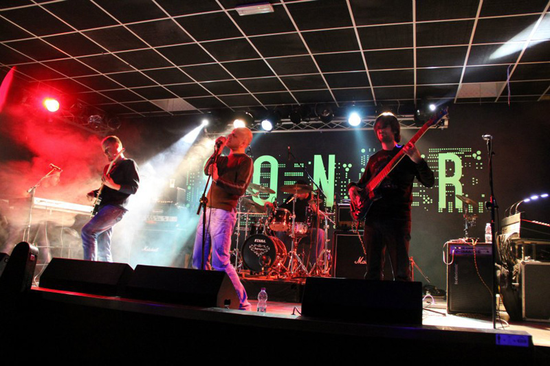 Profusion - Live in Colle Val D'Elsa